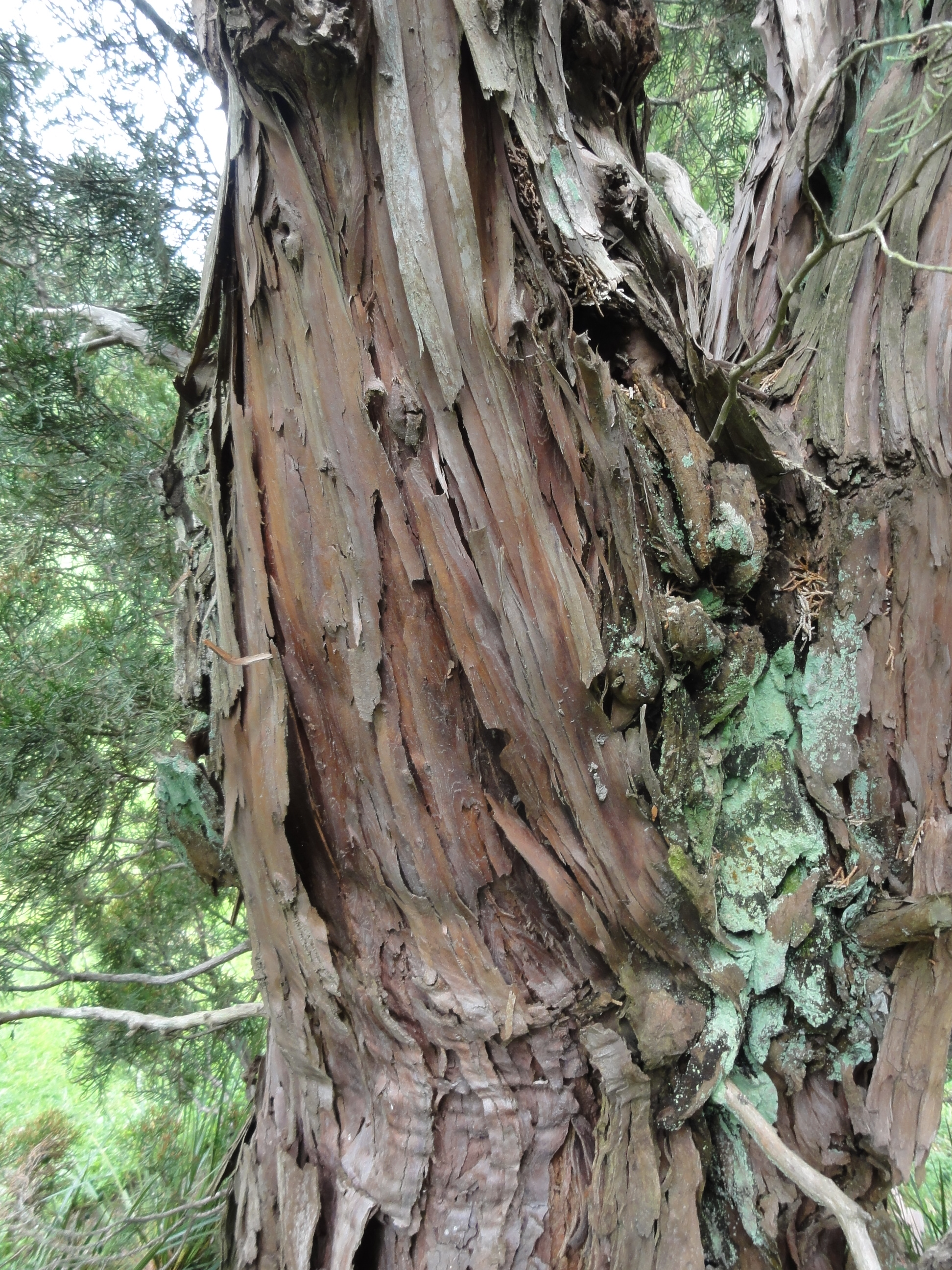 Libocedrus bidwillii, stem bark